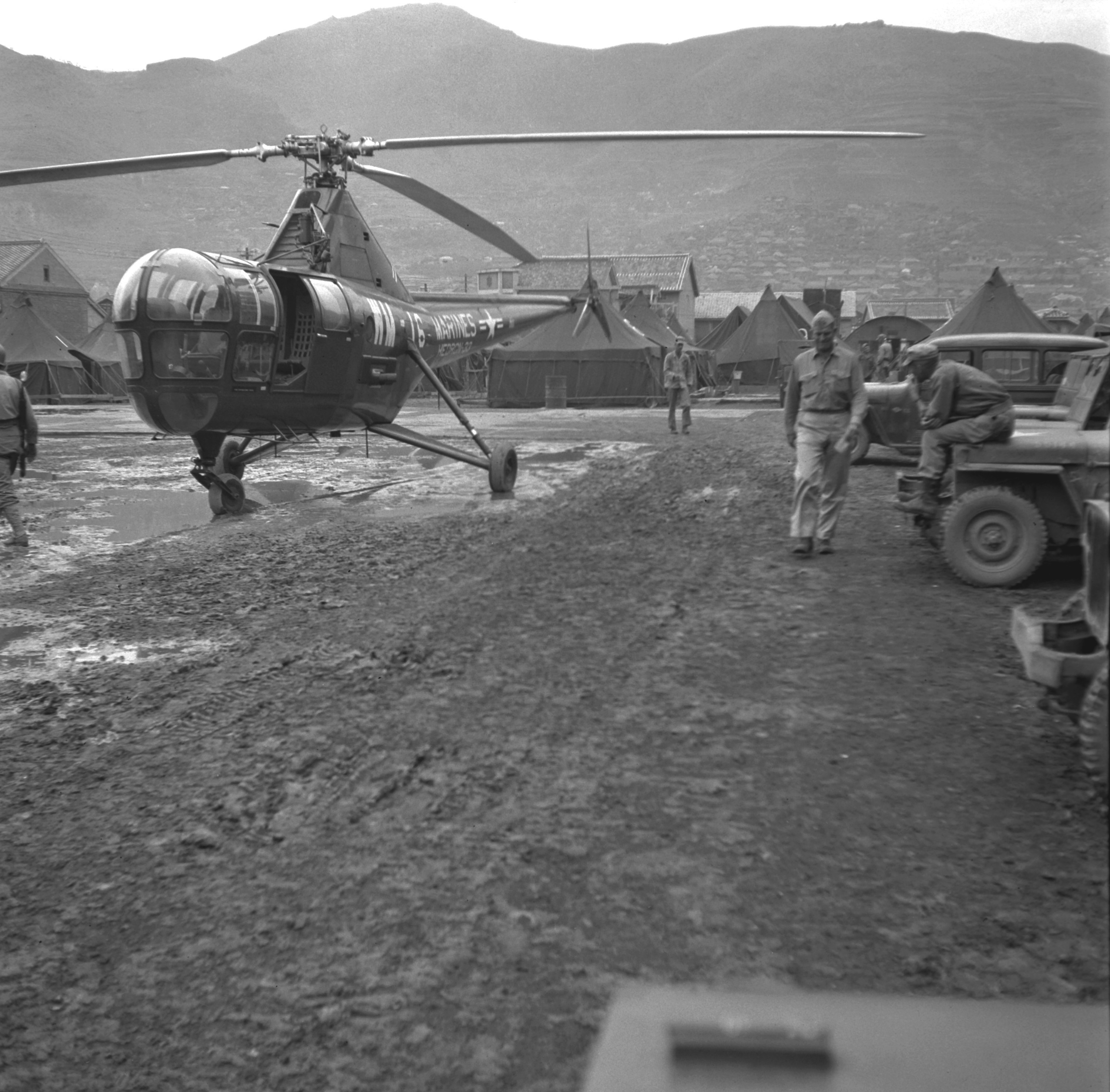 A U.S. Marine Corps Sikorsky HO3S-1 helicopter from Marine headquarters squadron HEDRON-33 The Fightin´ Hedron, Marine Air Group 33, parked near tents at Inchon, South Korea, on 13 December 1950.